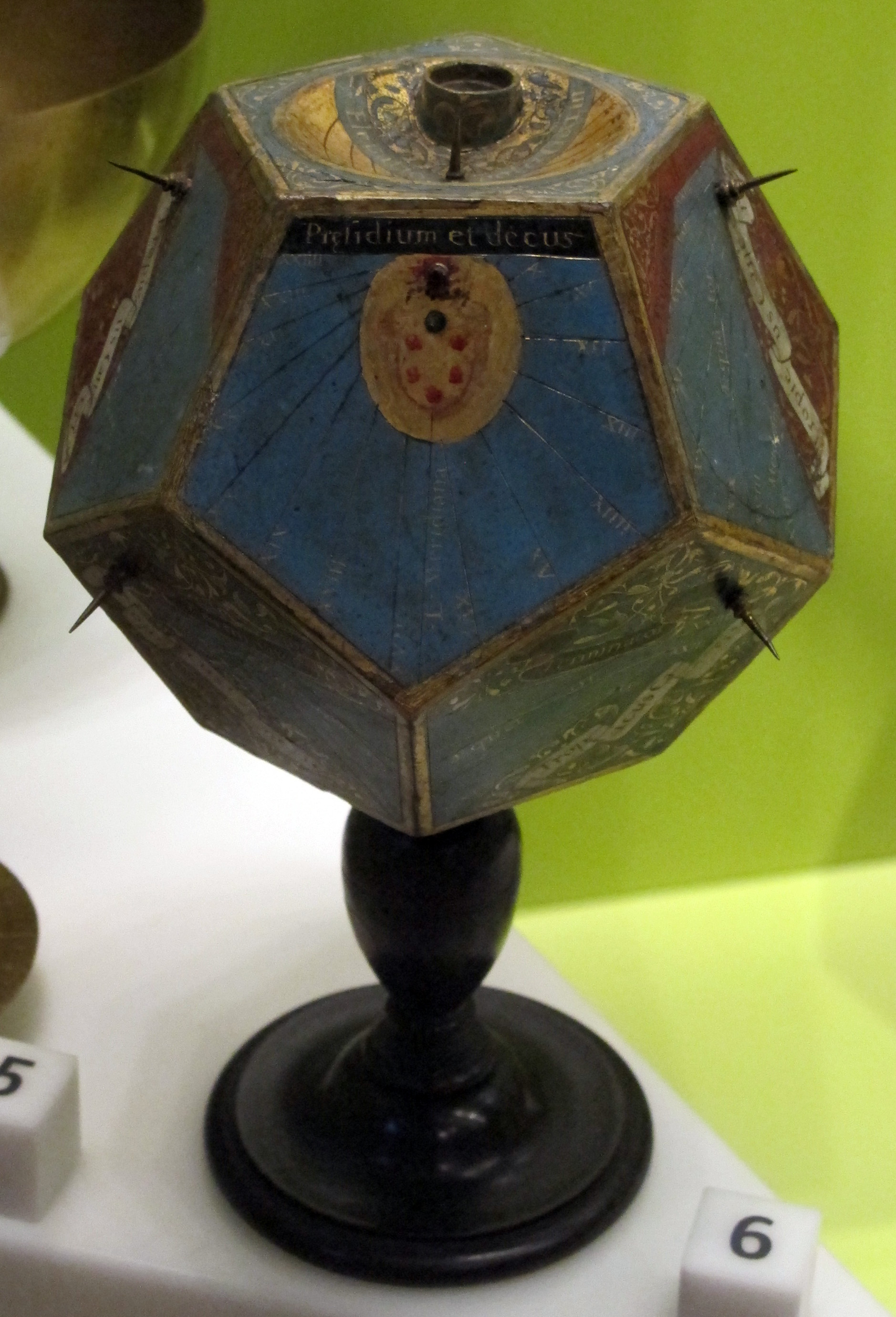 Polyhedral dial.